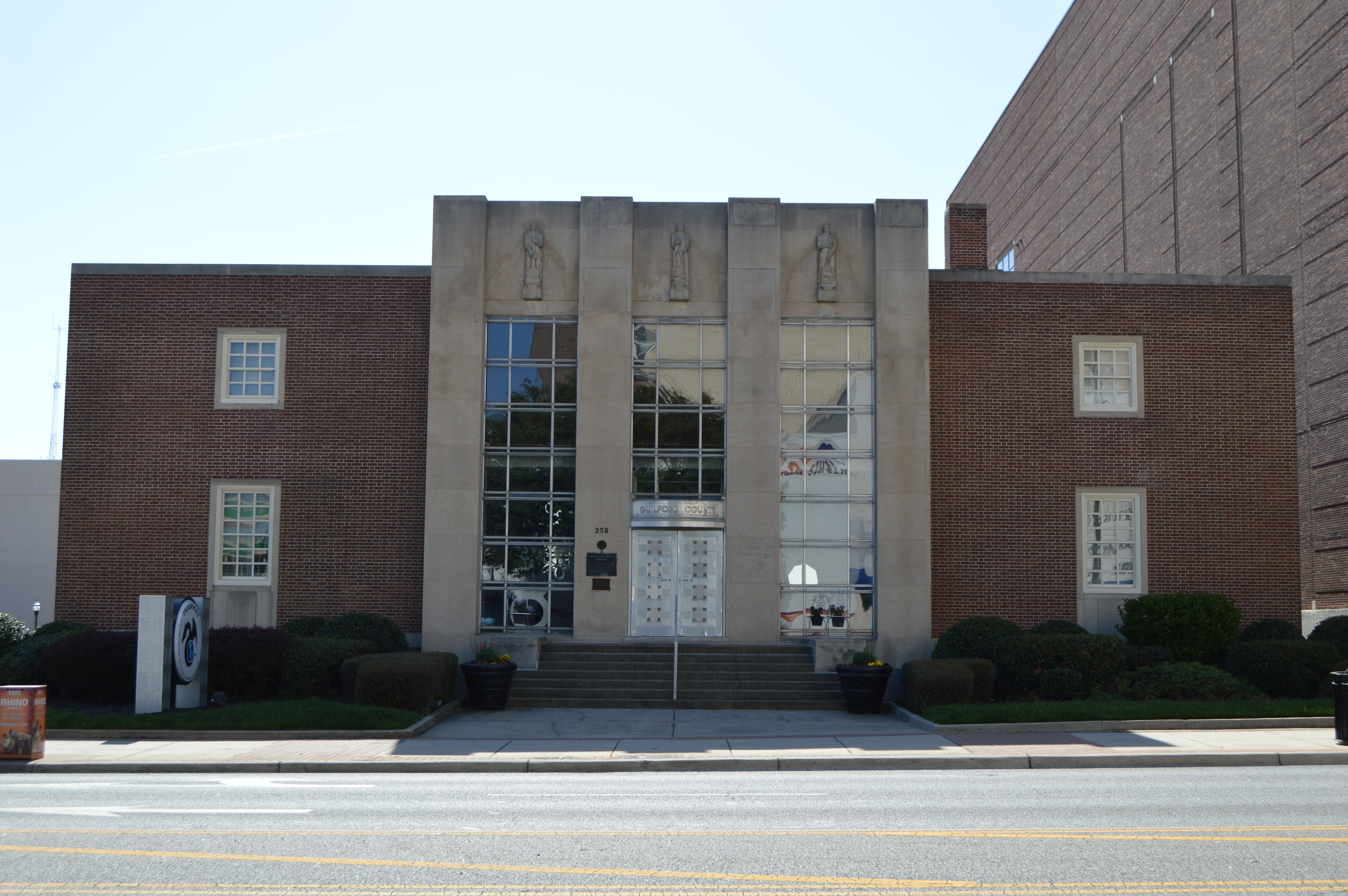 Front of the former Guilford County Office and Court Building, located at 258 S. Main Street in High Point, North Carolina, United States. Built in 1937, it is listed on the National Register of Historic Places.